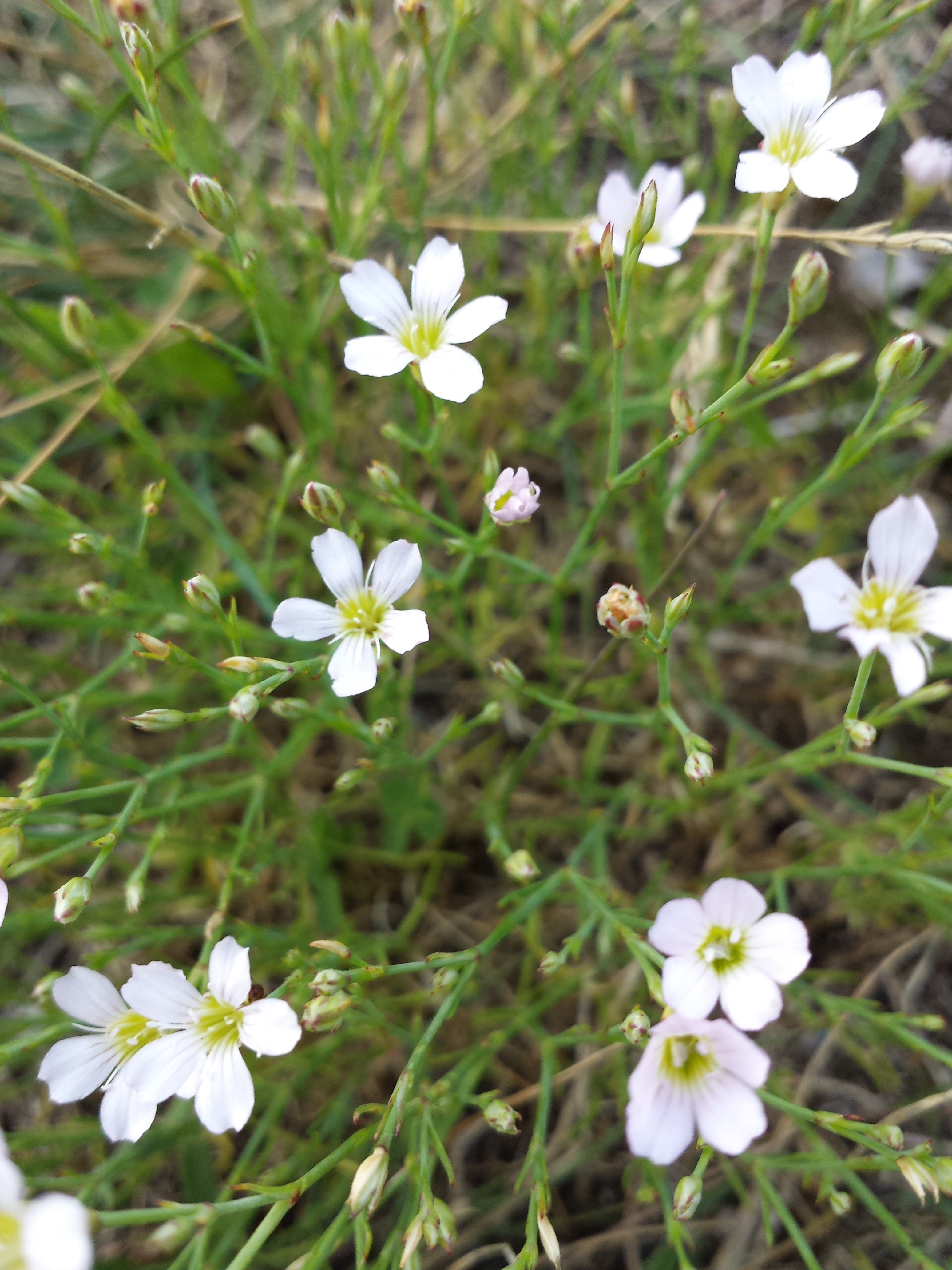 Habitus Taxon: Petrorhagia saxifraga (sensu Fischer et al. EfÖLS 2008 ISBN 978-3-85474-187-9) Location: Marchfeldkanal near Gerasdorf, district Wien-Umgebung, Lower Austria - ca. 160 m a.s.l. Habitat: way with broken stones